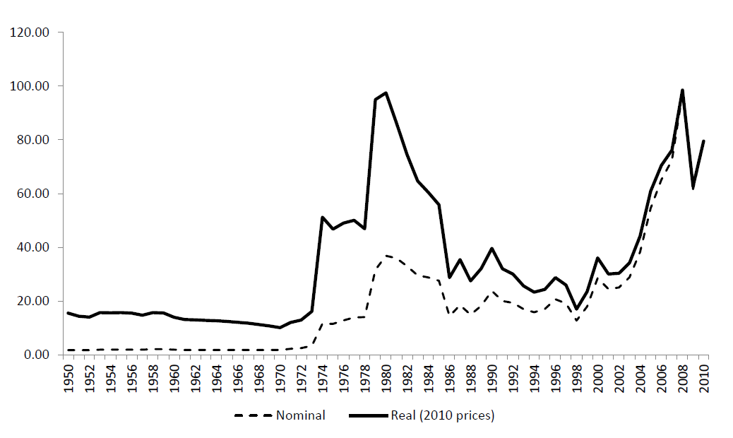 Crude oil prices (USD per barrel) Data source: BP Statistical Review of World Energy June 2011 // URL